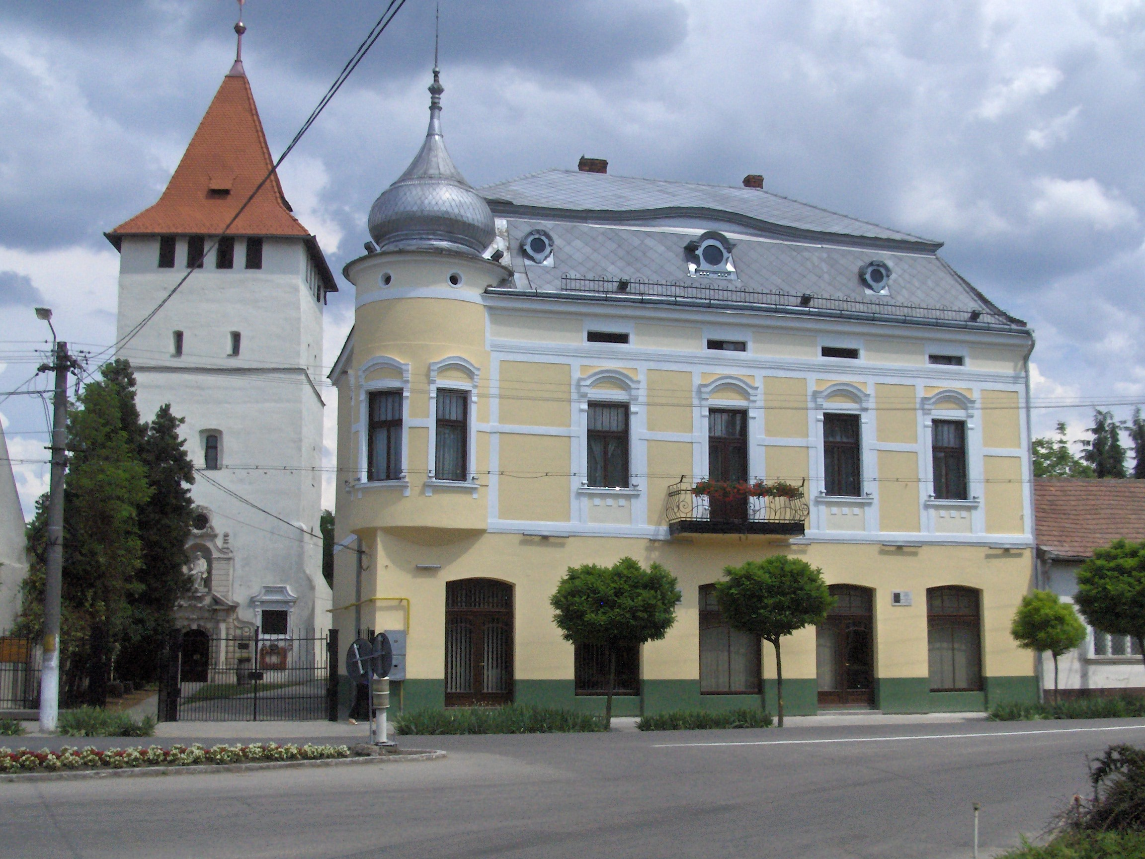 Truncated Tower and Arany Palace 03